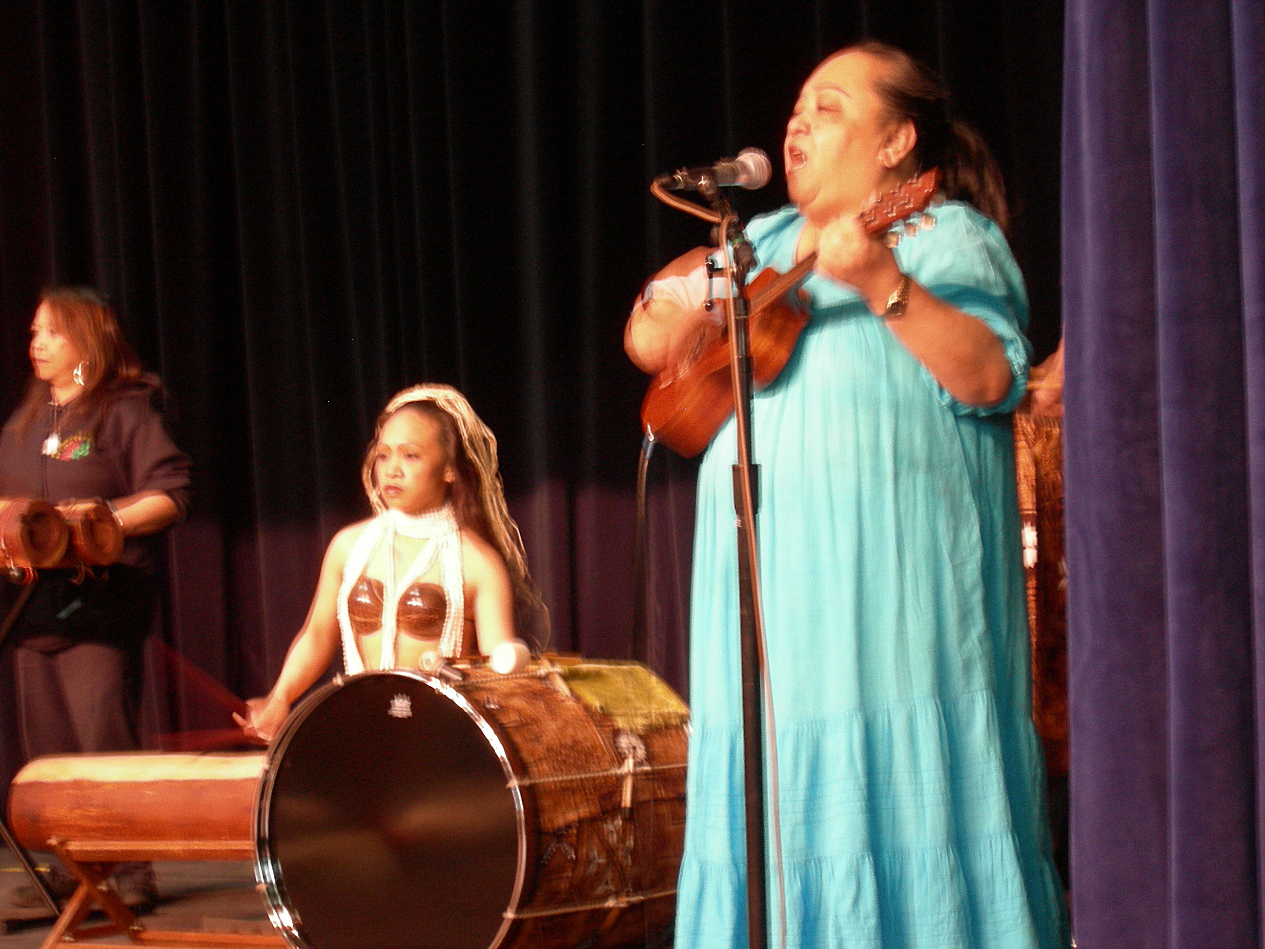 Musicians accompanying hula hālau Ke Liko A`e O Lei Lehua perform at Center House, Seattle Center, as part of Festál's API (Asian Pacific Islander) Heritage Month Festival. The pictures of this event have generally undergone slight enhancement (sharpening, color adjustments) with Picture Publisher.